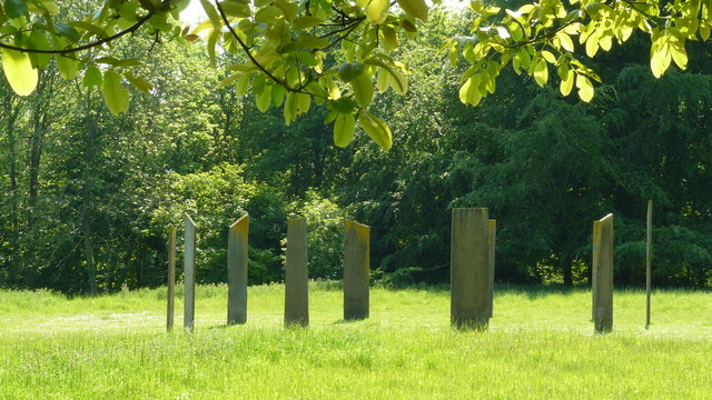 The Millennium Stones, Gatton Park Photographed from beside the Pilgrim's Way.